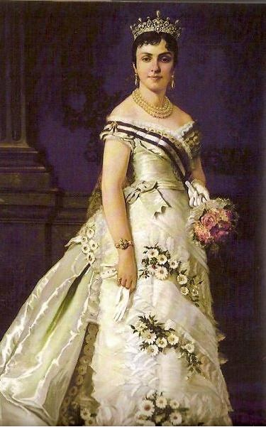 Queen María de las Mercedes de Orleans as Queen of Spain on her wedding day by an unknown artist